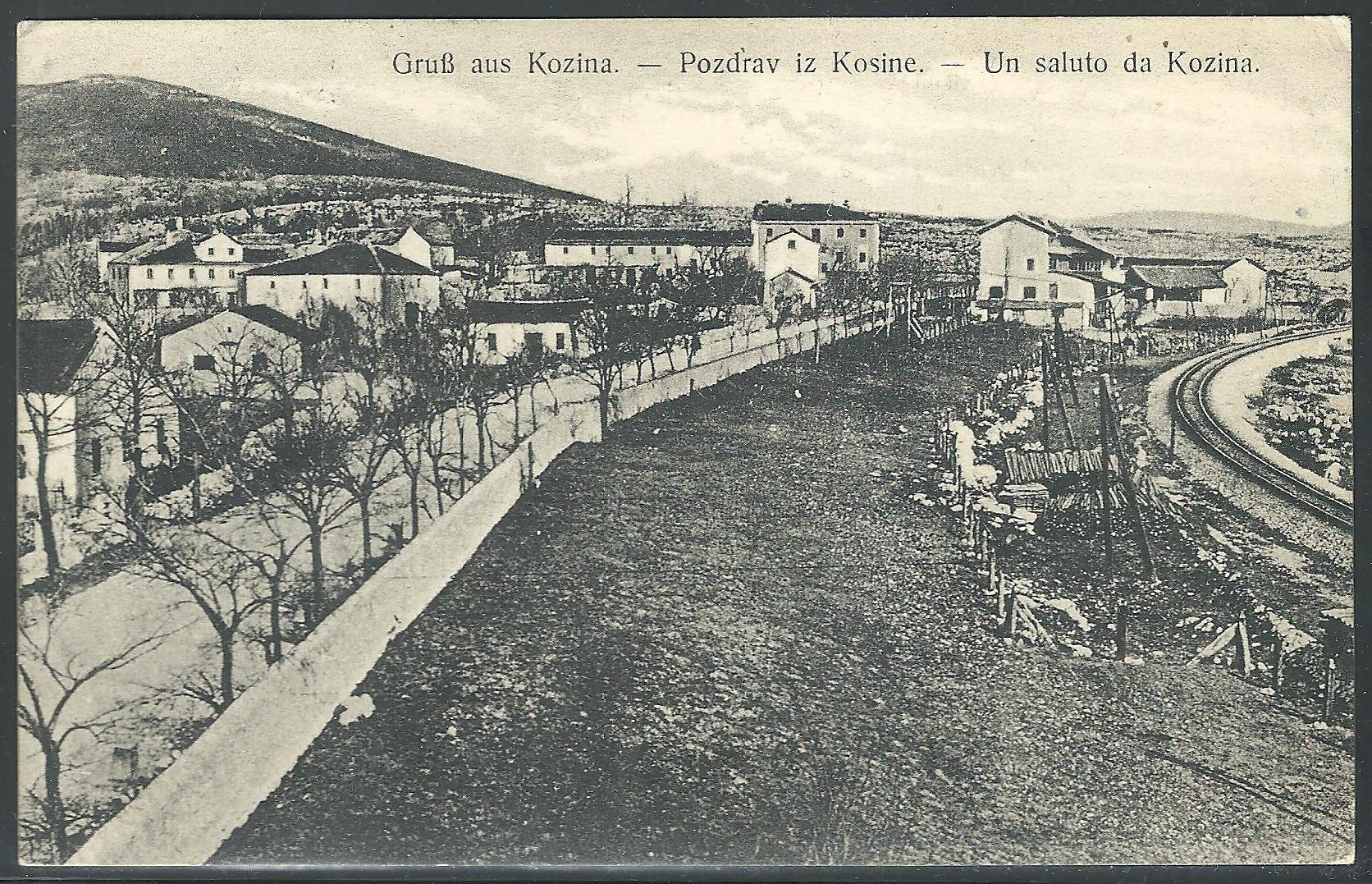 Postcard of Kozina.